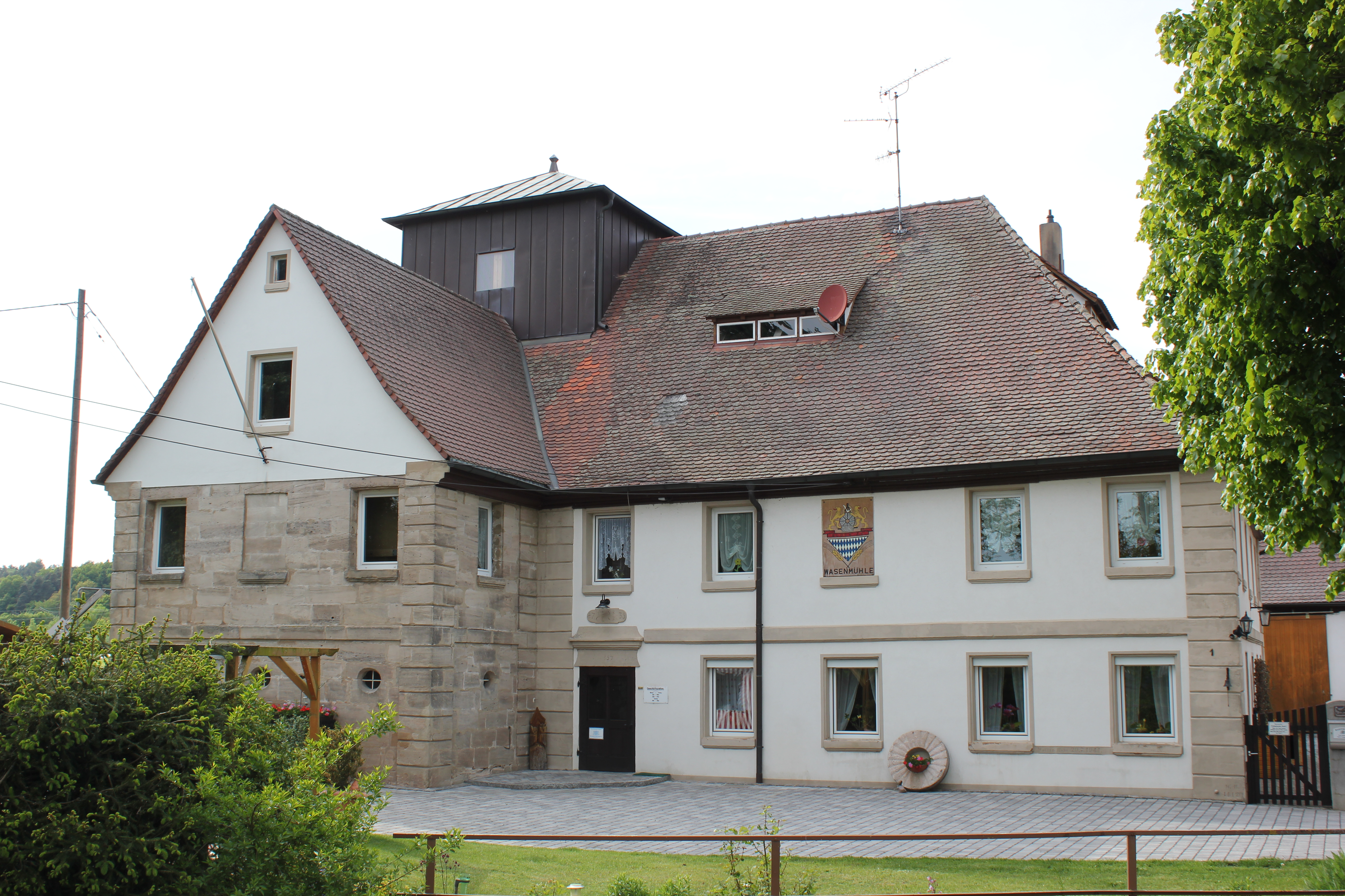 Langenzenn Wasenmühle 1